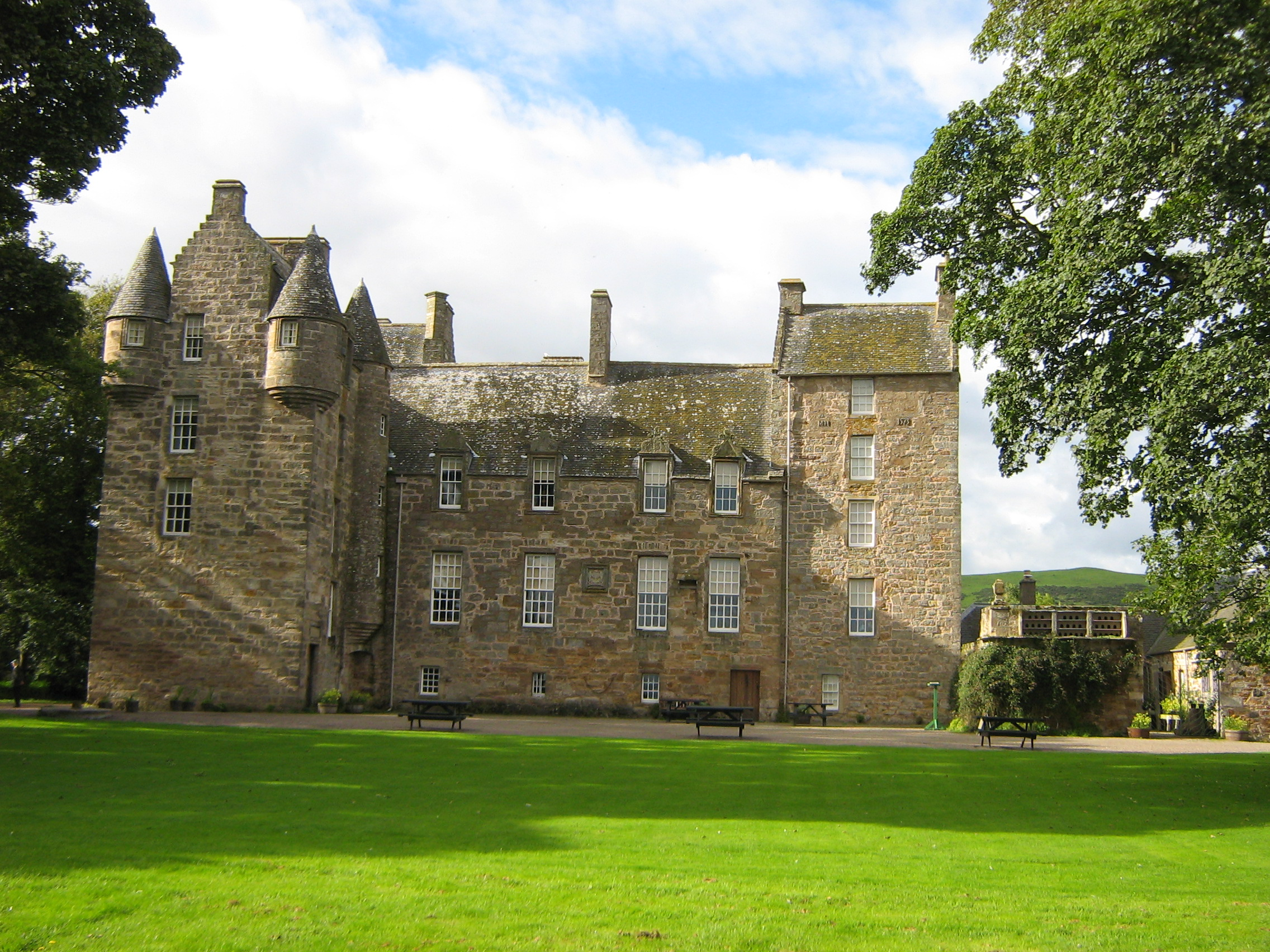 KELLIE CASTLE Wikidata has entry Q17770677 with data related to this building.